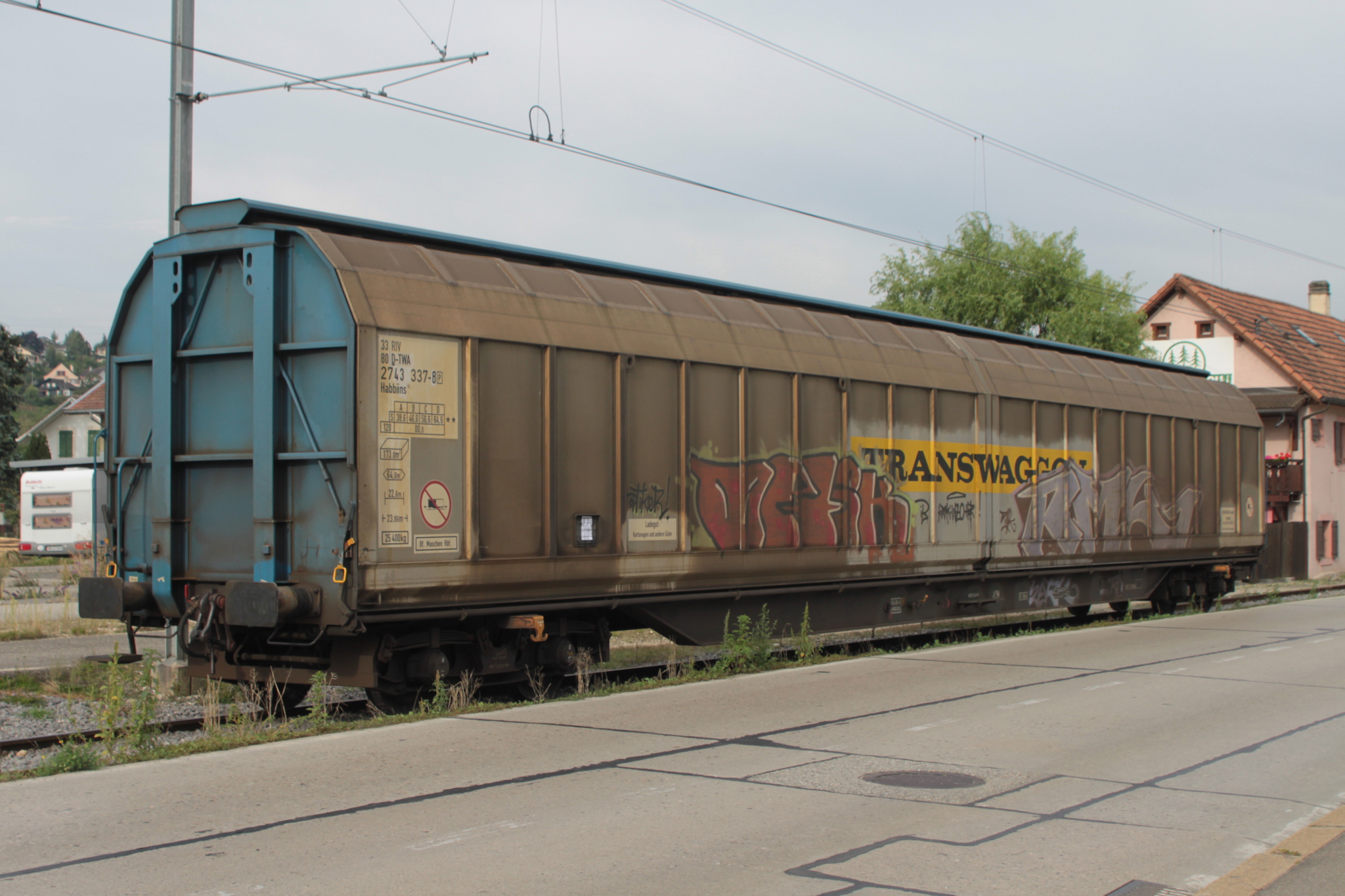 Transwaggon Habbiins 33 80 2743 337-9 D-TWA on the Orbe-Chavornay railway